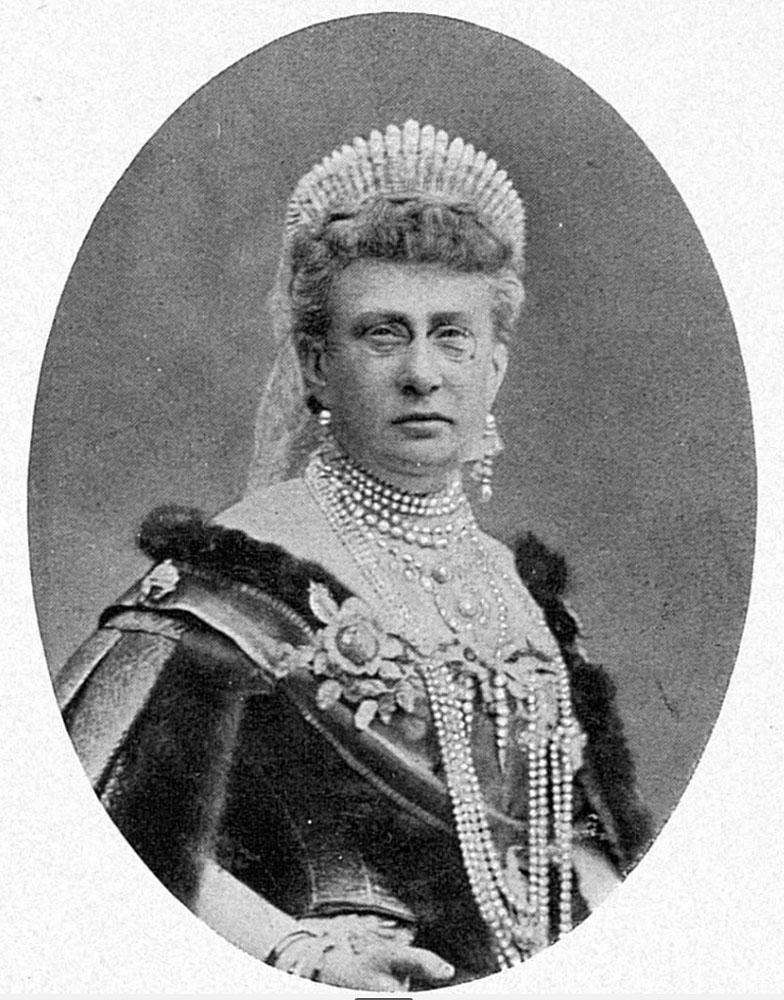 Grand Duchess Vera Constantinovna of Russia,Duchess Eugen of Württemberg